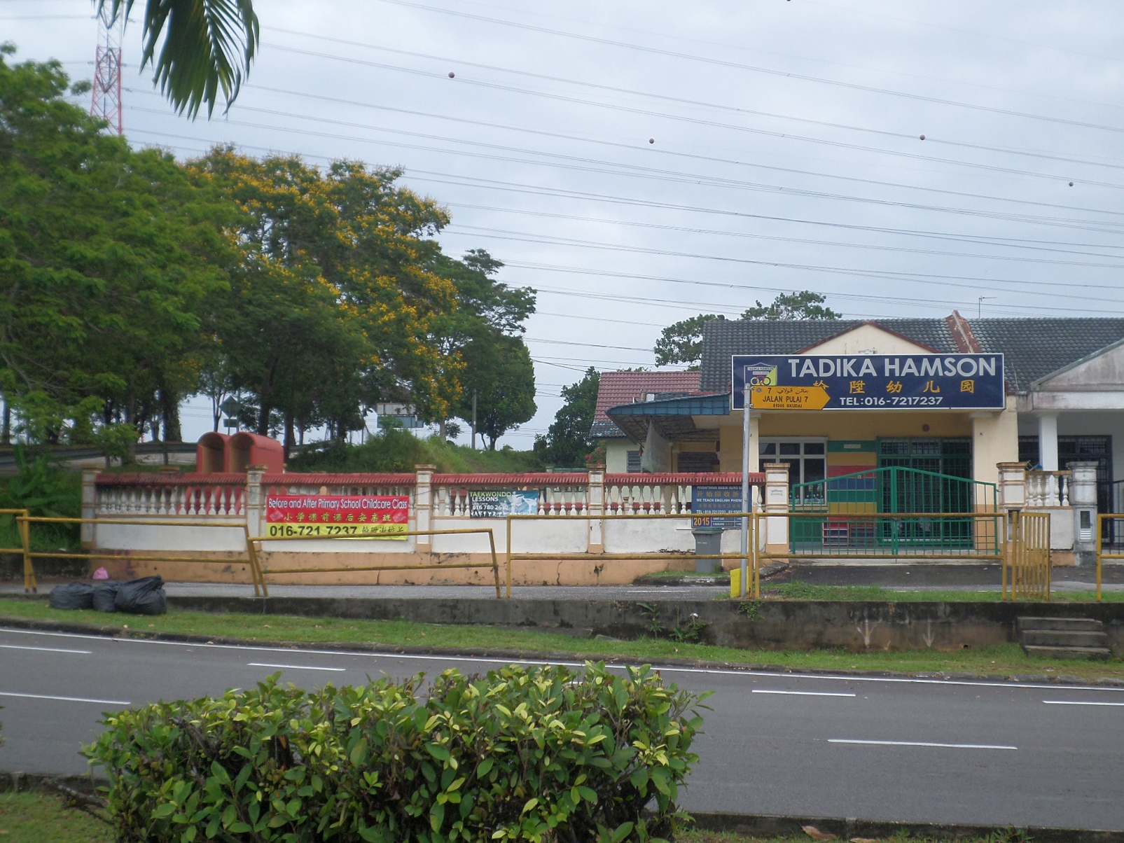 Hamson Kindergarten, Skudai, Iskandar Puteri, Johor Bahru, Johor, Malaysia